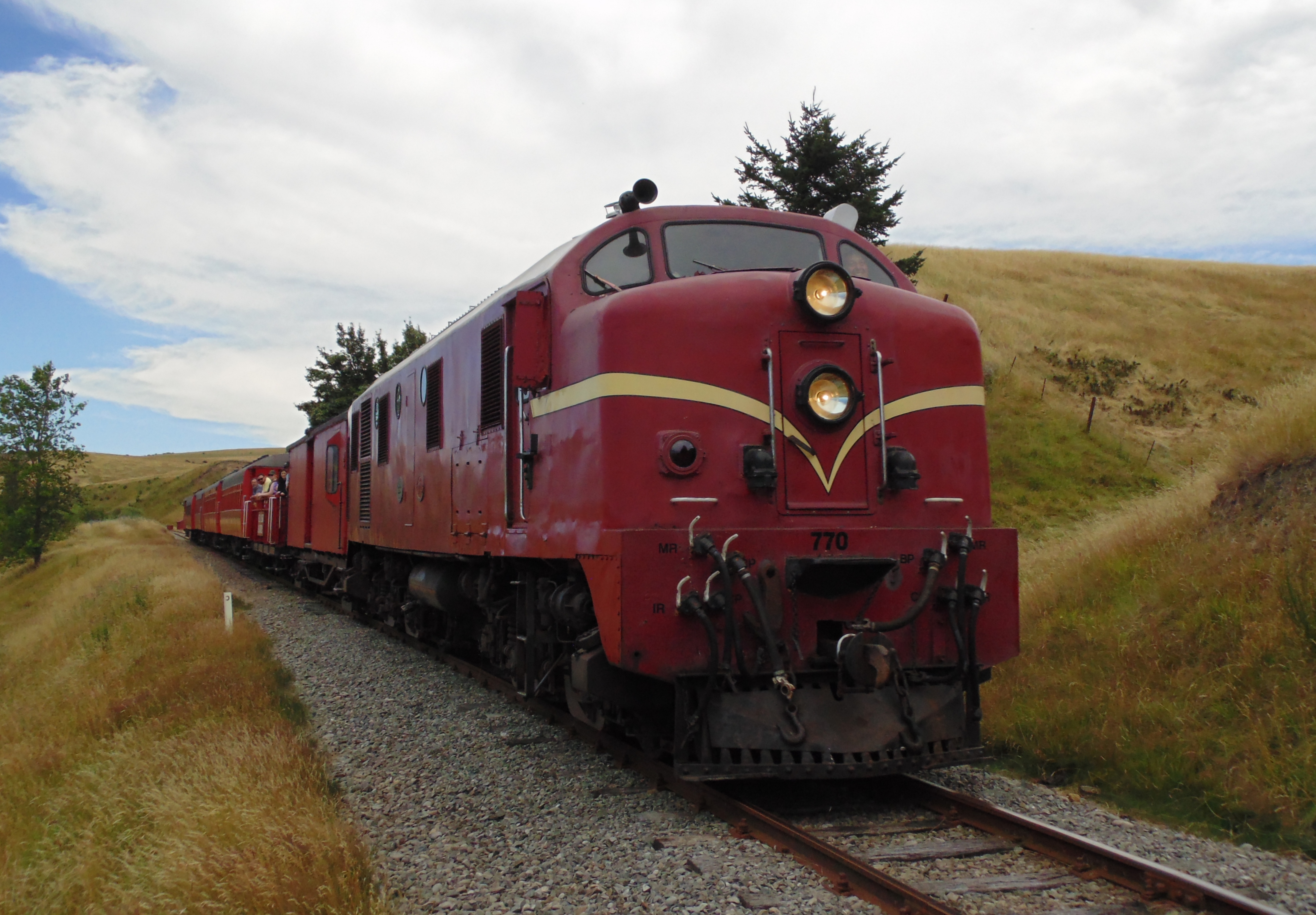 TrainboyMBH